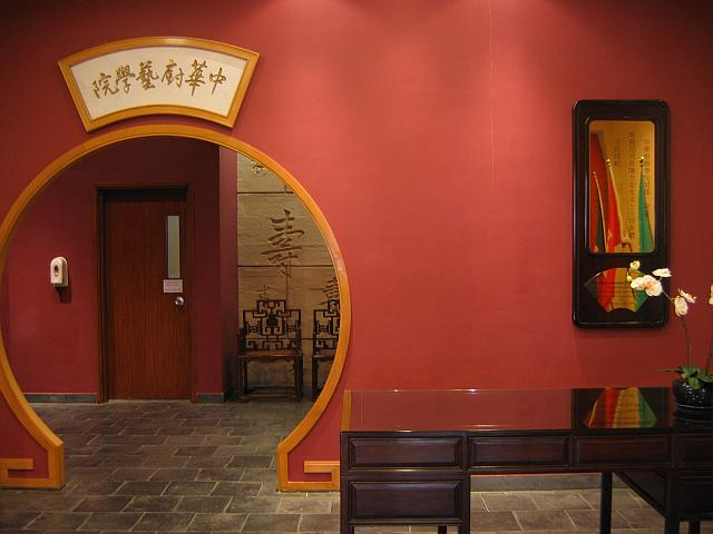 The entrance of the Chinese Cuisine Training Institute, Pok Fu Lam, Hong Kong Island.